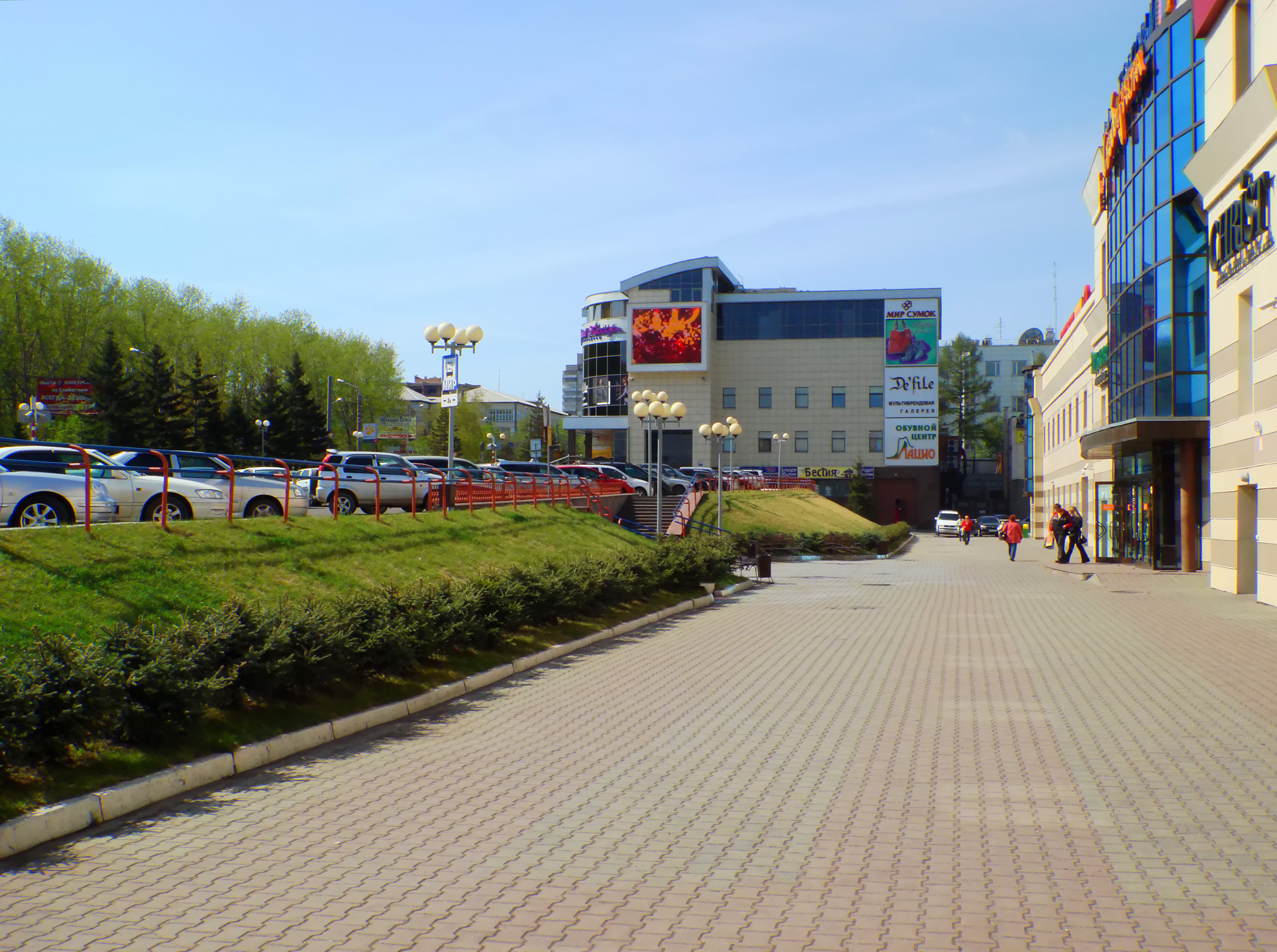 The "Torgovyy Kvartal" trading centre on Svobodnyy Ave in Krasnoyarsk.